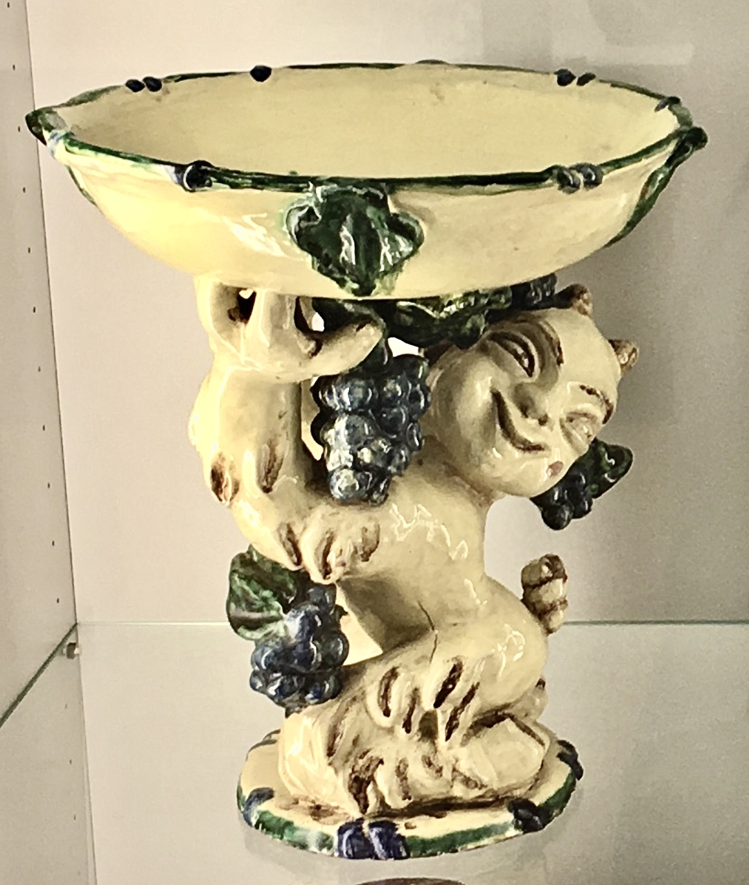 Scheibbs Satyr